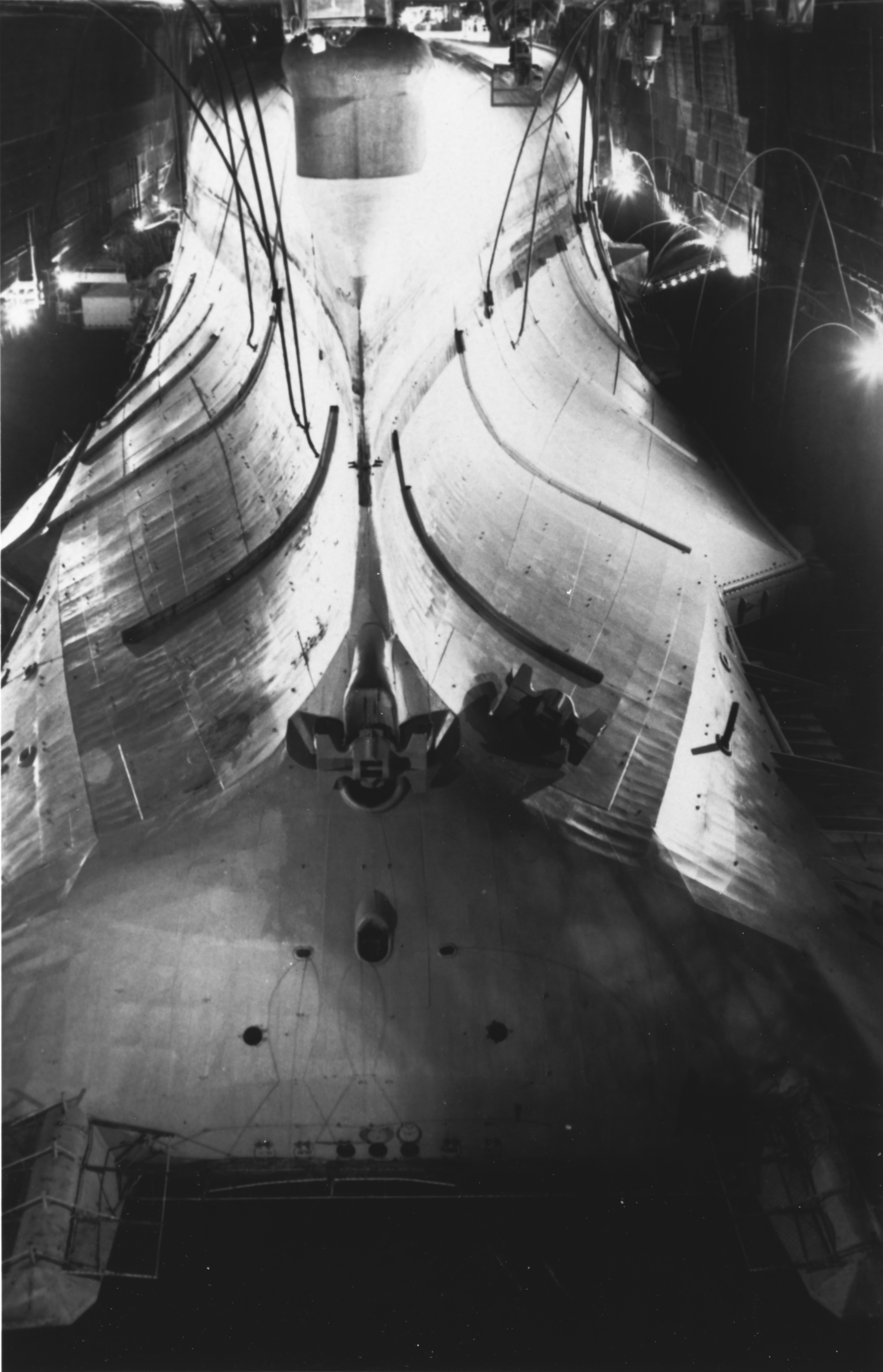 The U.S. Navy aircraft carrier USS Intrepid (CVS-11) in drydock at the Boston Naval Shipyard, Massachusetts (USA), during the early 1970s. Note the AN/SQS-23 sonar dome on forefoot.